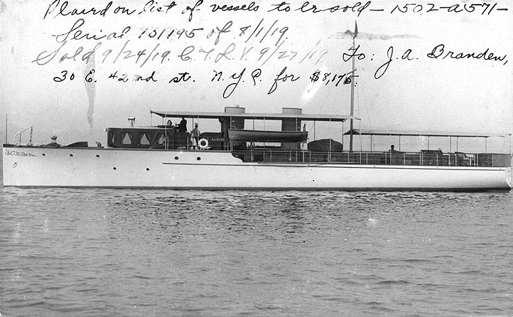 The motorboat Aurore II, prior to her United States Navy service as patrol vessel USS Aurore II (SP-460), later USS SP-460